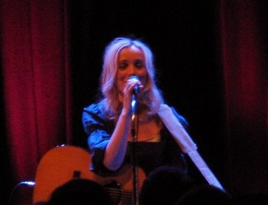 Lisa Ekdahl performing at Amager Bio, Copenhagen